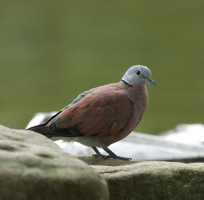 Male, taken at C.K.S. Memorial Hall, Taipei.